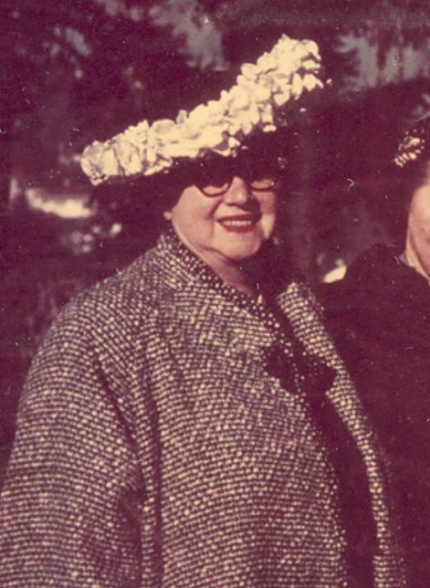 Olga Engdahl (American Mother of the Year 1963 Mrs. John S. Engdahl) Place: Omaha, NE